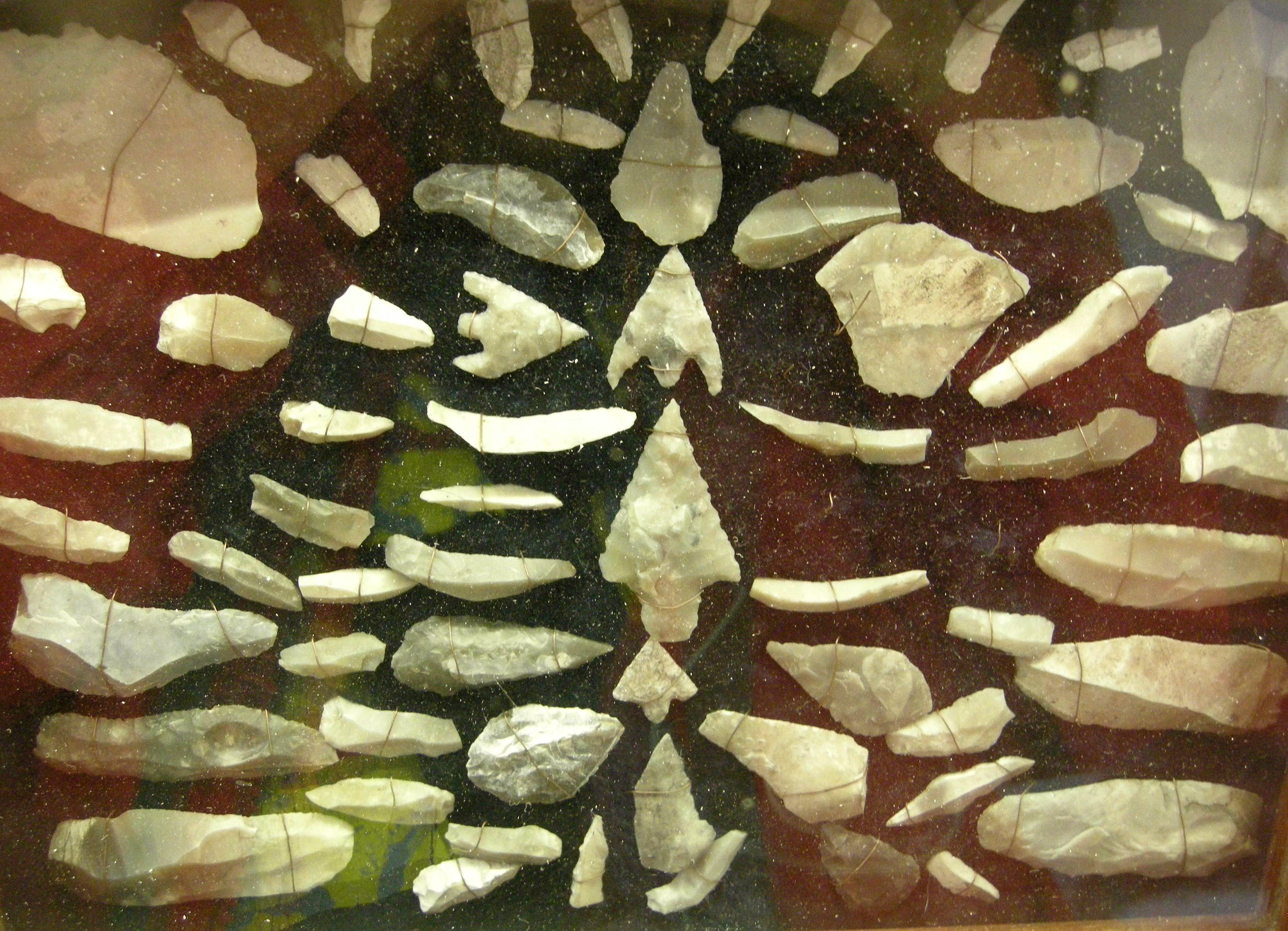 Prehistoric arrowheads and other knapped stones photographed through two layers of glass and some dust, at Manor House Museum, Ilkley